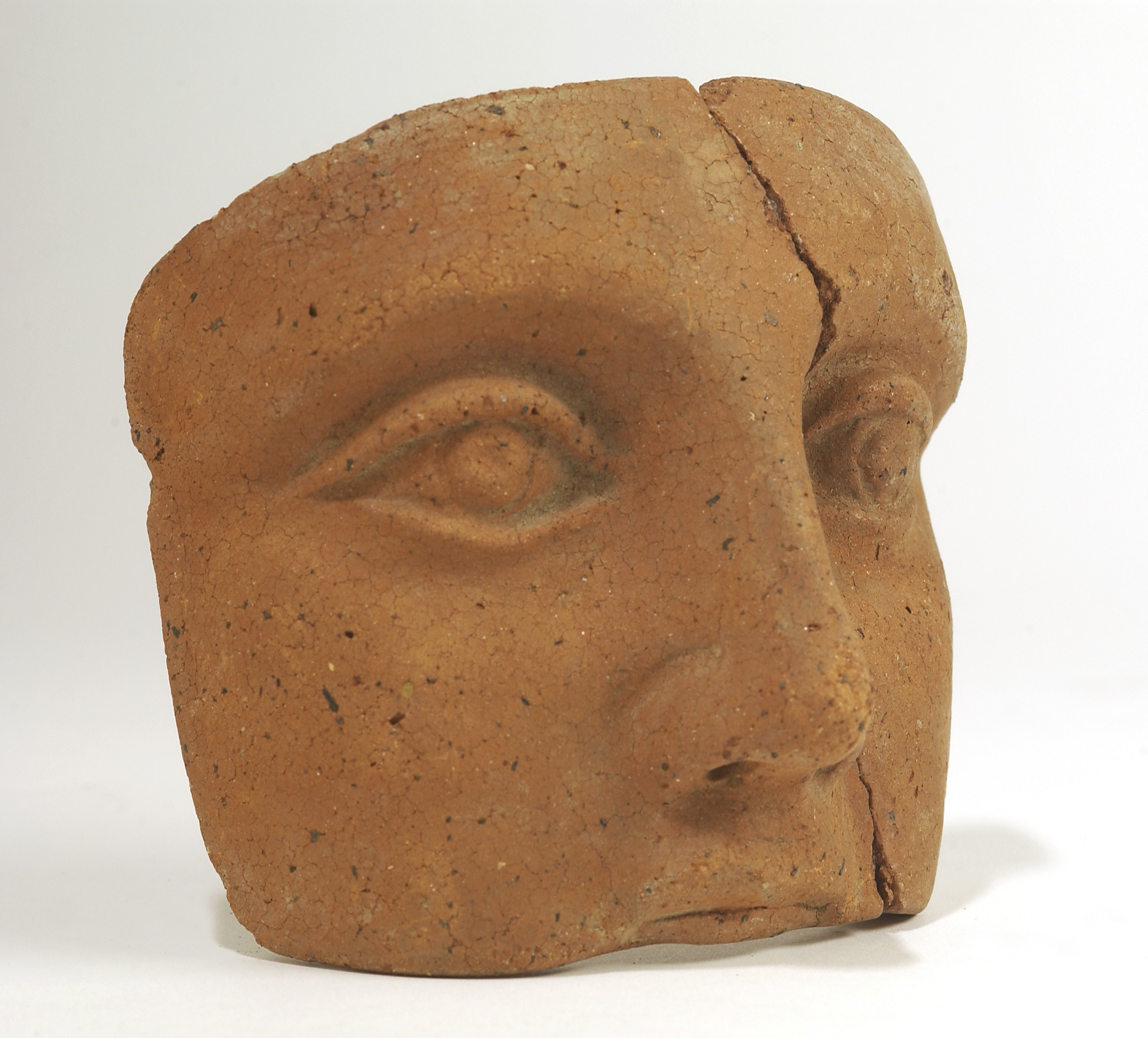 A clay-backed face. Roman votive offering Wellcome Images Keywords: Roman Empire; Offering; Terracotta; Antiquity; Votives; Shrine; Aesculapius; Sculpture